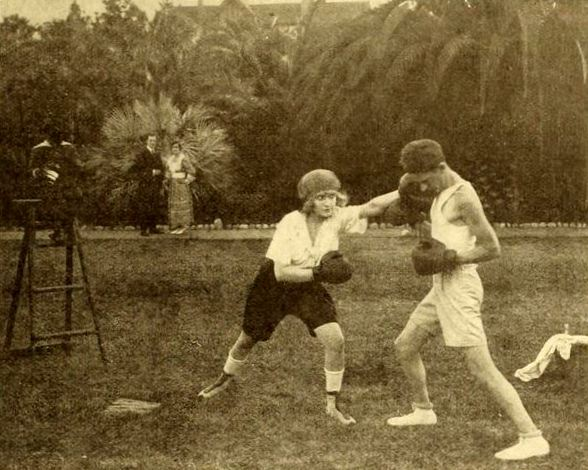 Still from the American film Peggy Does Her Darndest (1919) with May Allison, on page 793 of the February 8, 1919 Movie Picture World.